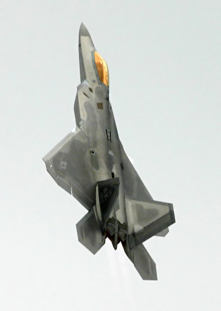 Taken at the Arctic Thunder Air Show on Elmendorf AFB, Anchorage, Alaska in June 2008.